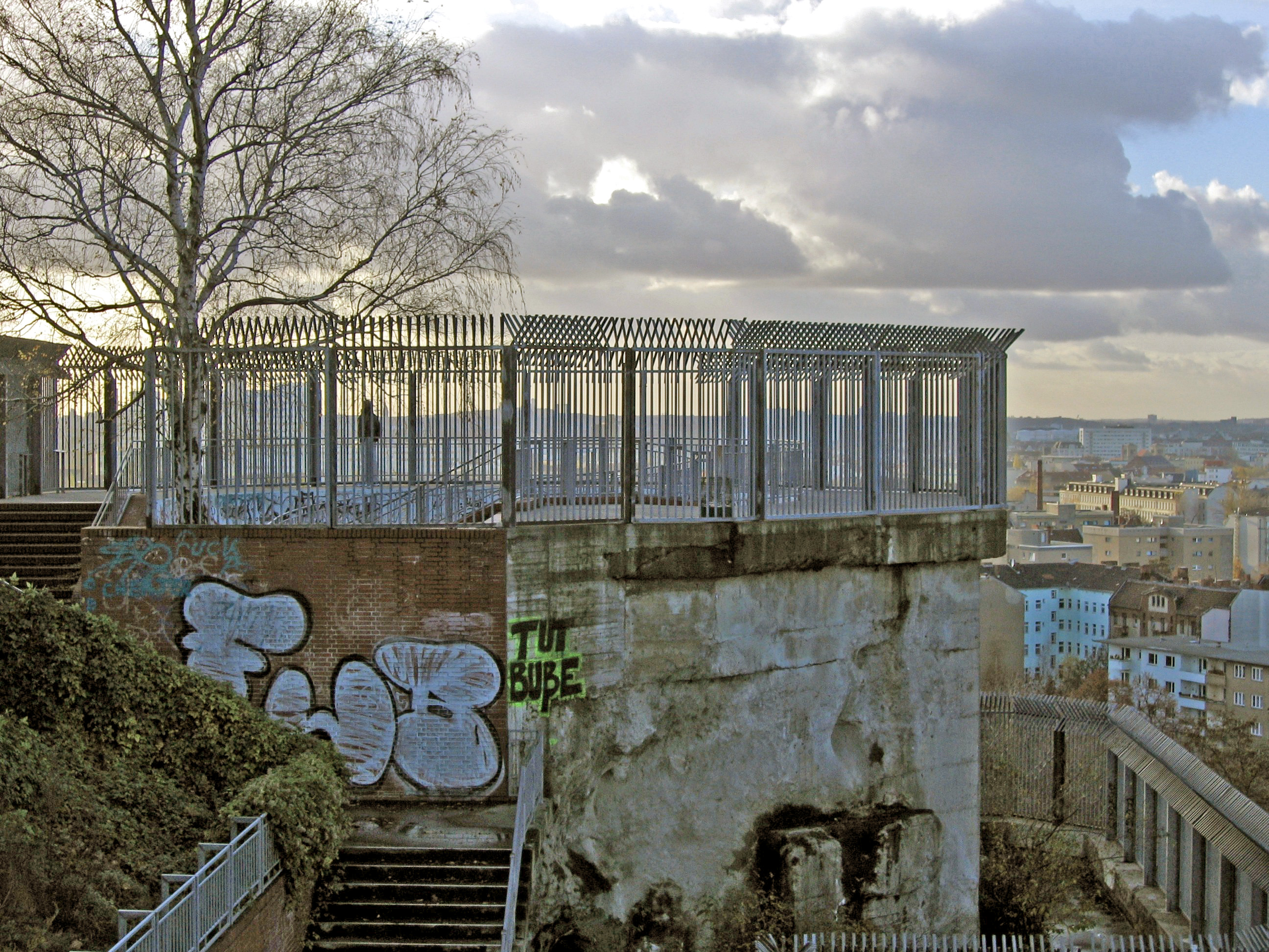 Berlin Humboldthain, View from the Shelter